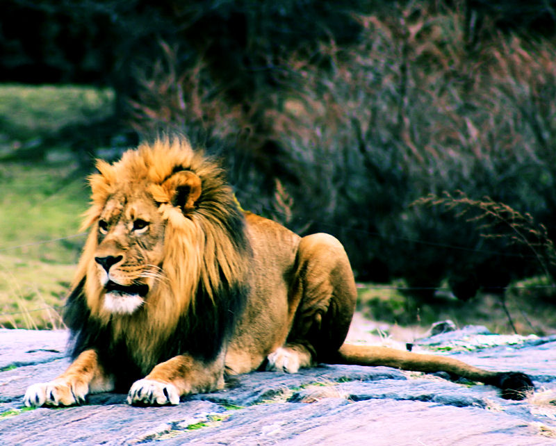 Lion at Bronx Zoo.